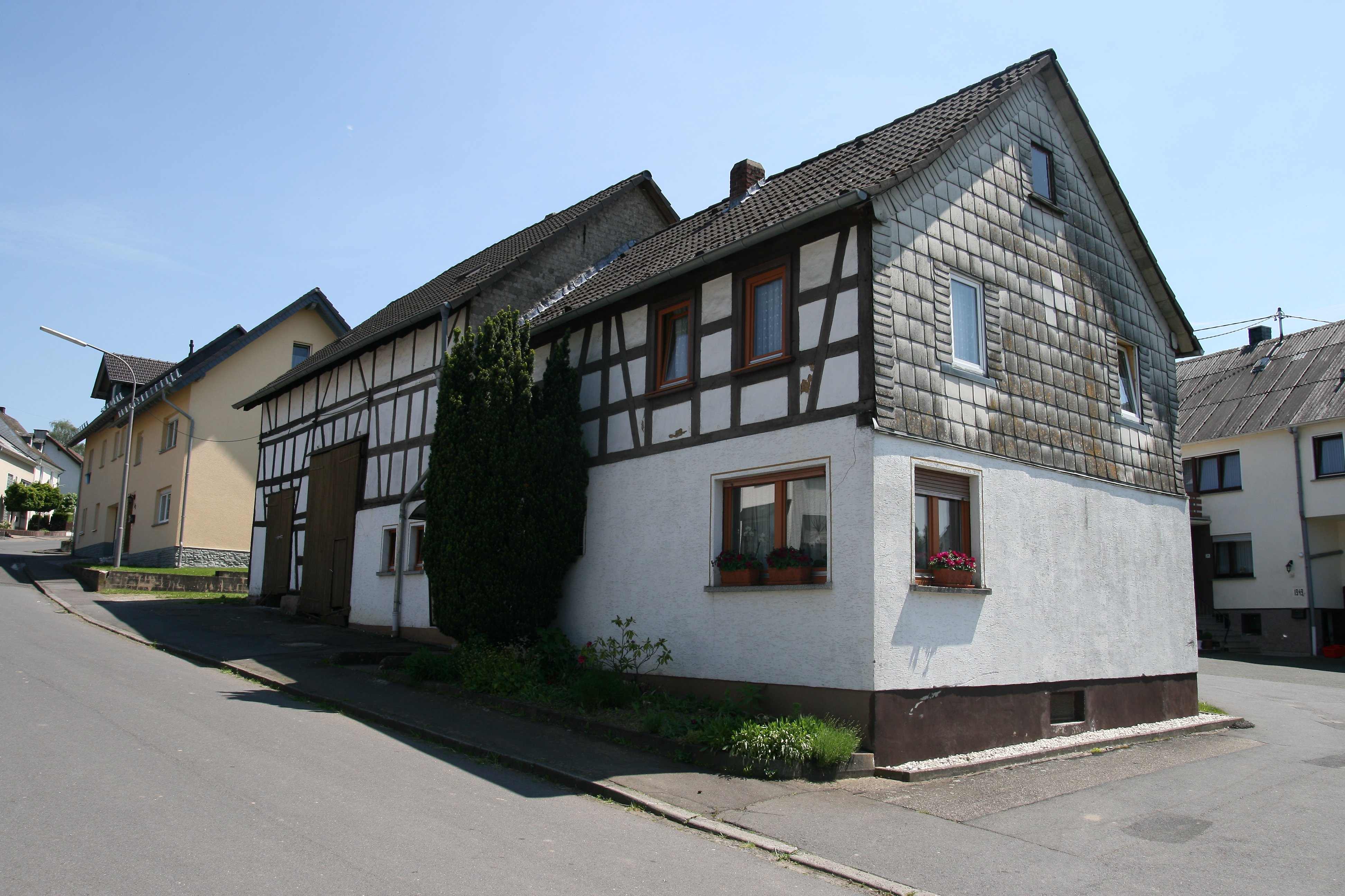 Old house at Hauptstraße 28 in Goddert, Westerwald, Rhineland-Palatinate, Germany